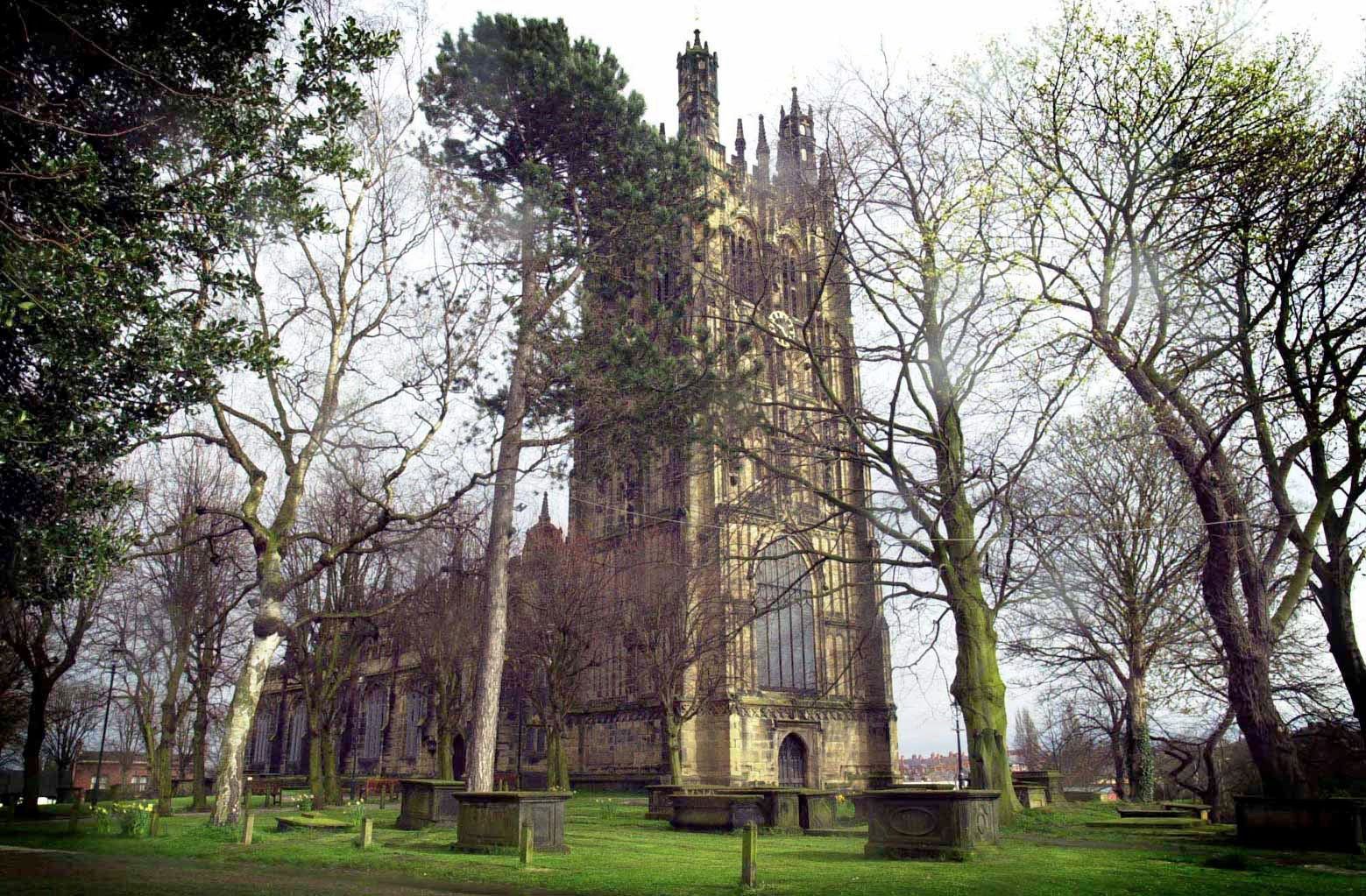 St Giles, considered the greatest example of Gothic architecture in Wales. St. Giles Church Steeple - One of the Seven Wonders of Wales.